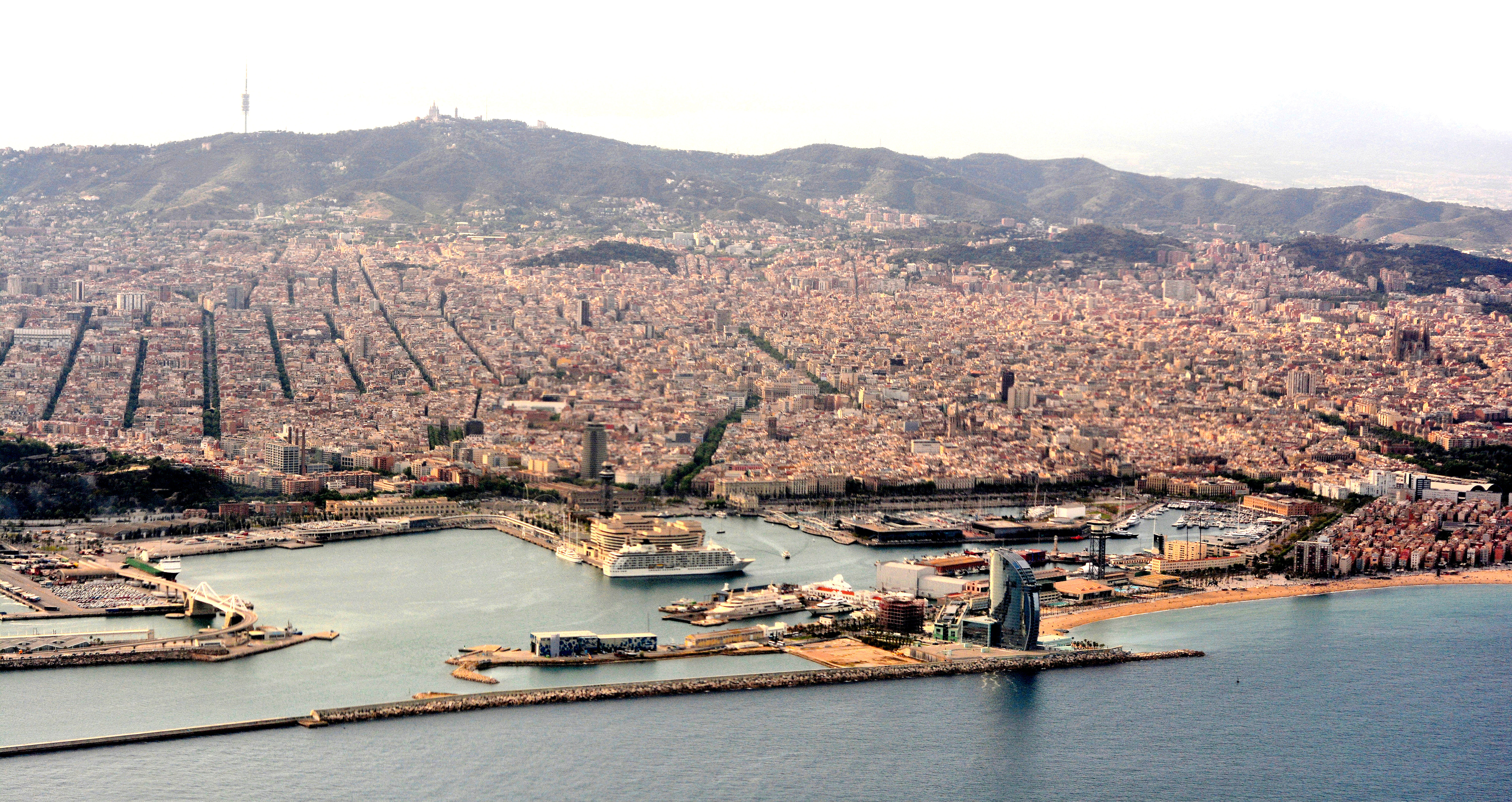 This view of Barcelona, Spain was captured in the early evening and the setting sun gave a warm colour to the city. Visible in the foreground is part of the port, with a cruise ship easily seen. Barcelona is a major centre in the Mediterranean Cruise scene. Just visible on the far right of the picture are the towers of the Sagrada Familia which is a large unfinished Roman Catholic church. Work on it started in 1882 and continues. The current estimate for completion is sometime about 2027. It is the masterpiece of Antonio Gaudi, an outstanding architect, and there are several examples of his work in the city. In relation to the slow pace of construction, legend has it that Gaudi said "My client is not in a hurry" whilst looking to the sky. Sadly he was killed by a tram in 1926 but construction has continued, on and off, since. Looking to the skyline you can see Tibidabo mountain with, left to right, the communication tower known as the Torre de Collserola. It was designed by British architect Norman Foster (now Lord Foster). It's a narrow column, supported by guy wires. Surprisingly, perhaps, it's possible to take a lift up the column to a viewing platform 560 metres (1837 feet) above sea level, which gives outstanding views over the city. Lastly, a short way to the right of the tower, at the top of the mountain, is a lofty church - the Temple de Sagrat Cor, which was built in 1806. Just below the church is a small and quaint theme park, which itself is historical and also provides great views over the city.